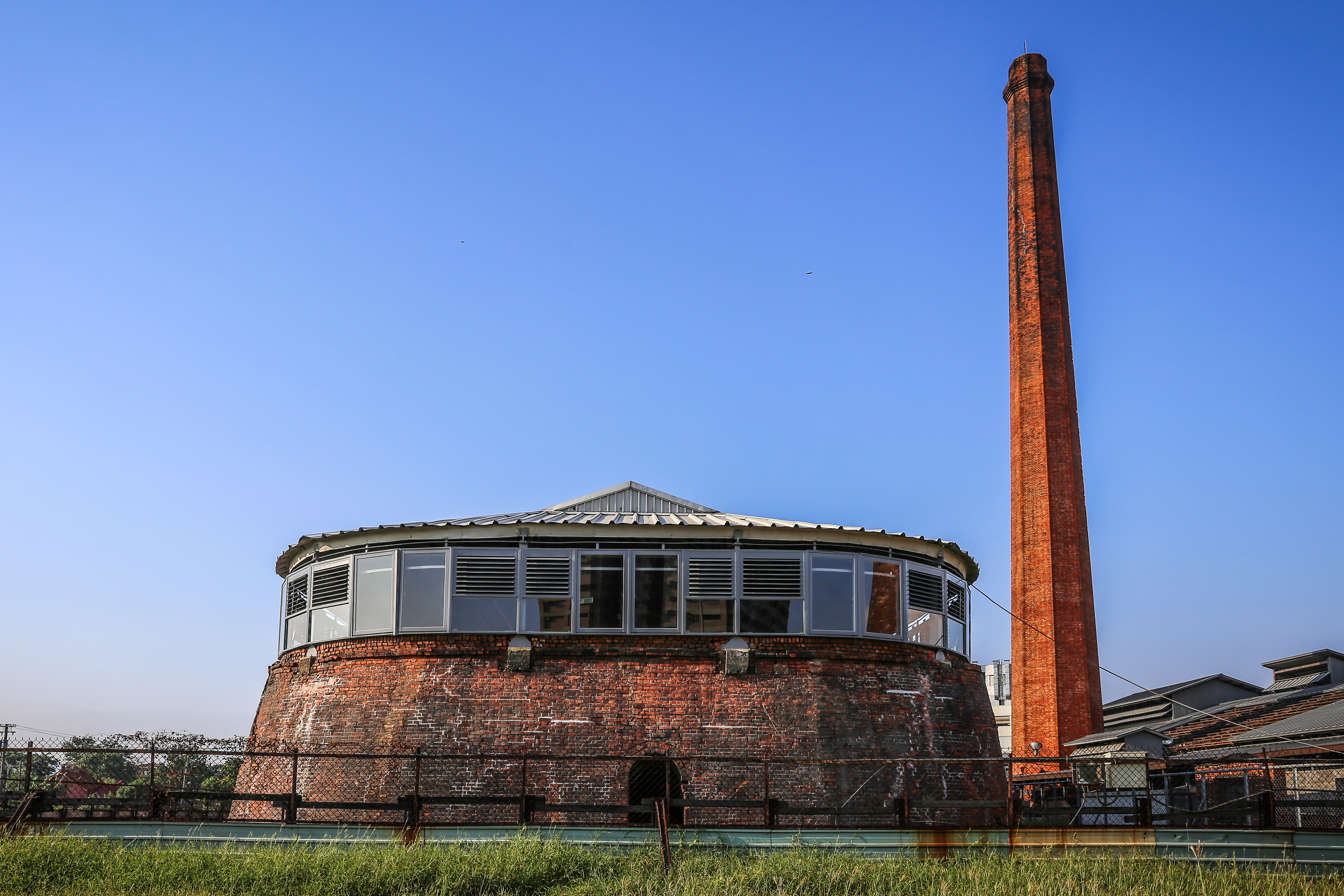 The south side of the Former Tangrong Brick Kiln, Sanmin District, Kaohsiung City, Taiwan.